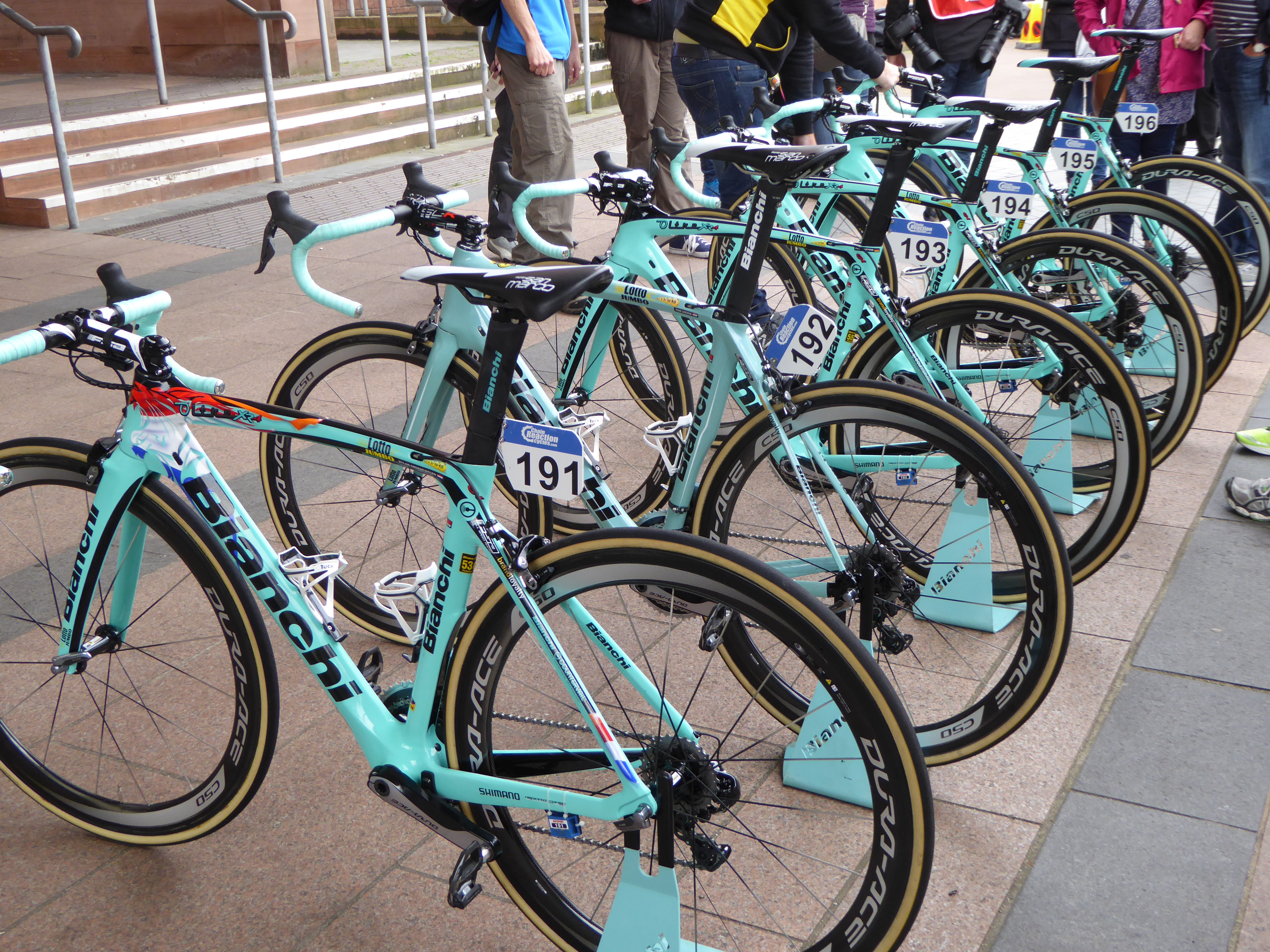 The Bianchi bikes of Team LottoNL-Jumbo, pictured before Stage 2 of the 2016 Tour of Britain in Carlisle on 5 September 2016.